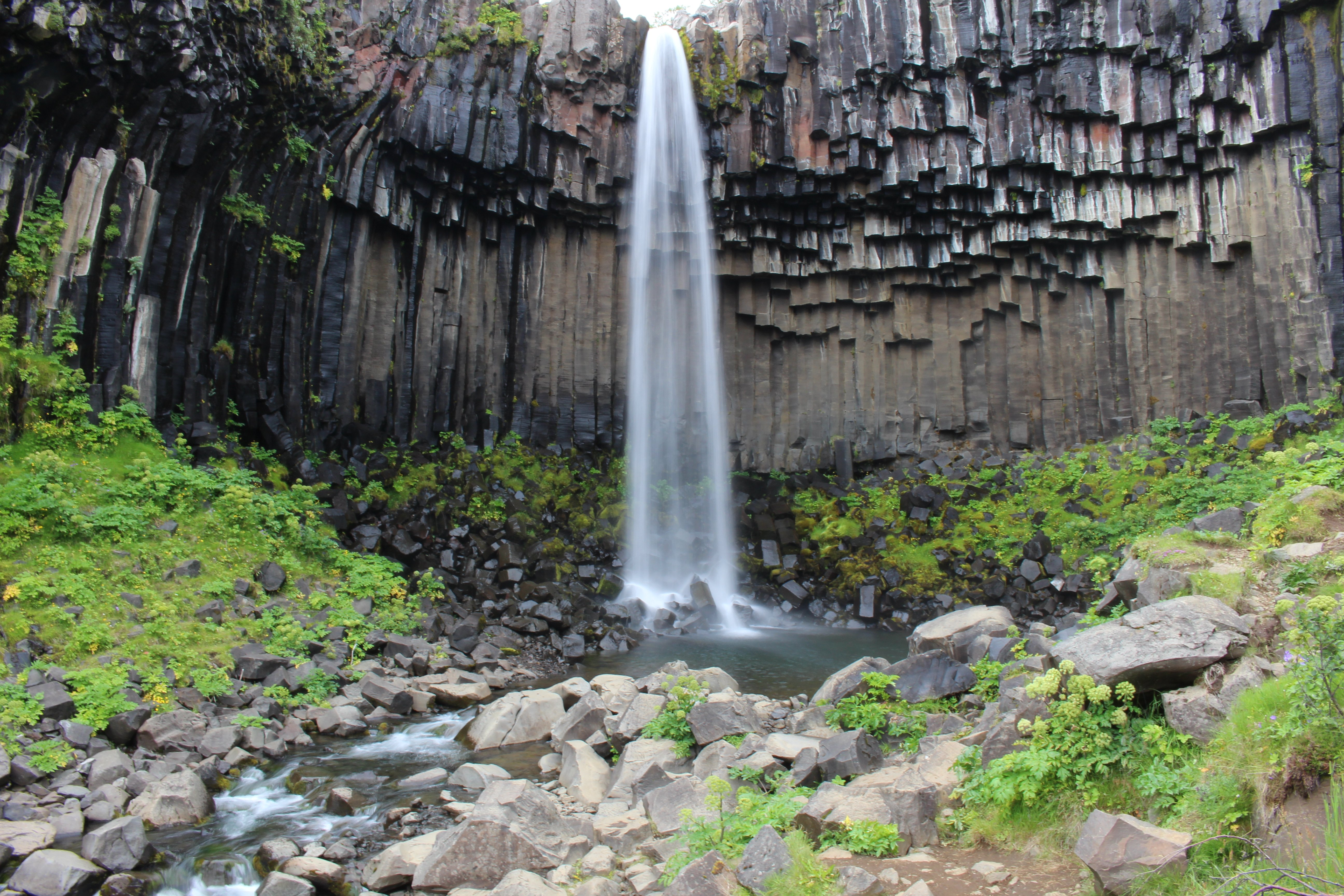 Svartifoss waterfall between dark lava columns in Iceland